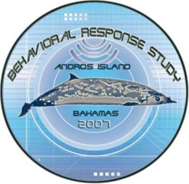 Behavioral Response Study: Andros Island, Bahamas (2007)